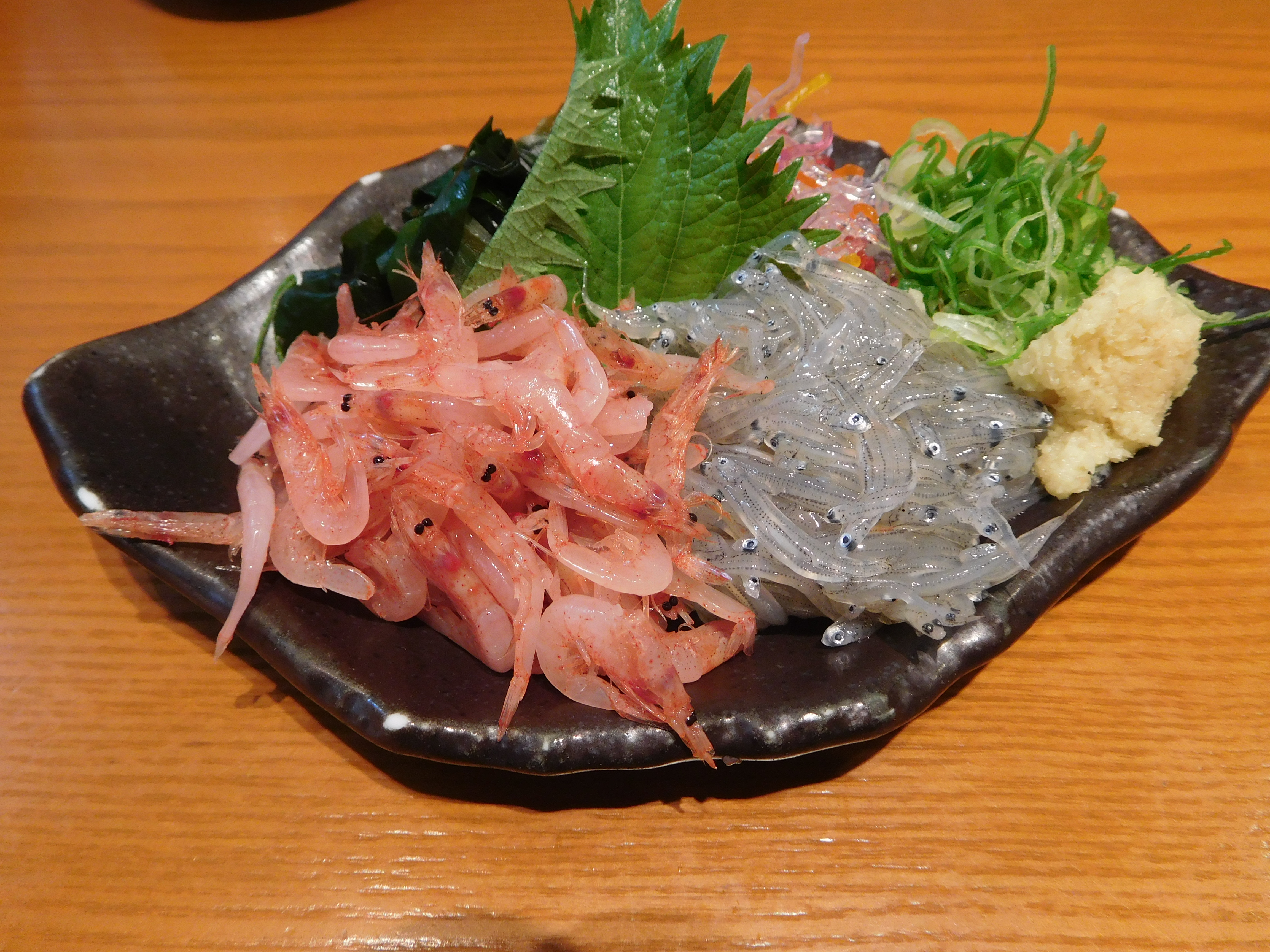 This is an assorted sakura shrimp & whitebait caught in Suruga bay, Japan. It was served at a Japanese restaurant in Mishima, Shizuoka, Japan.